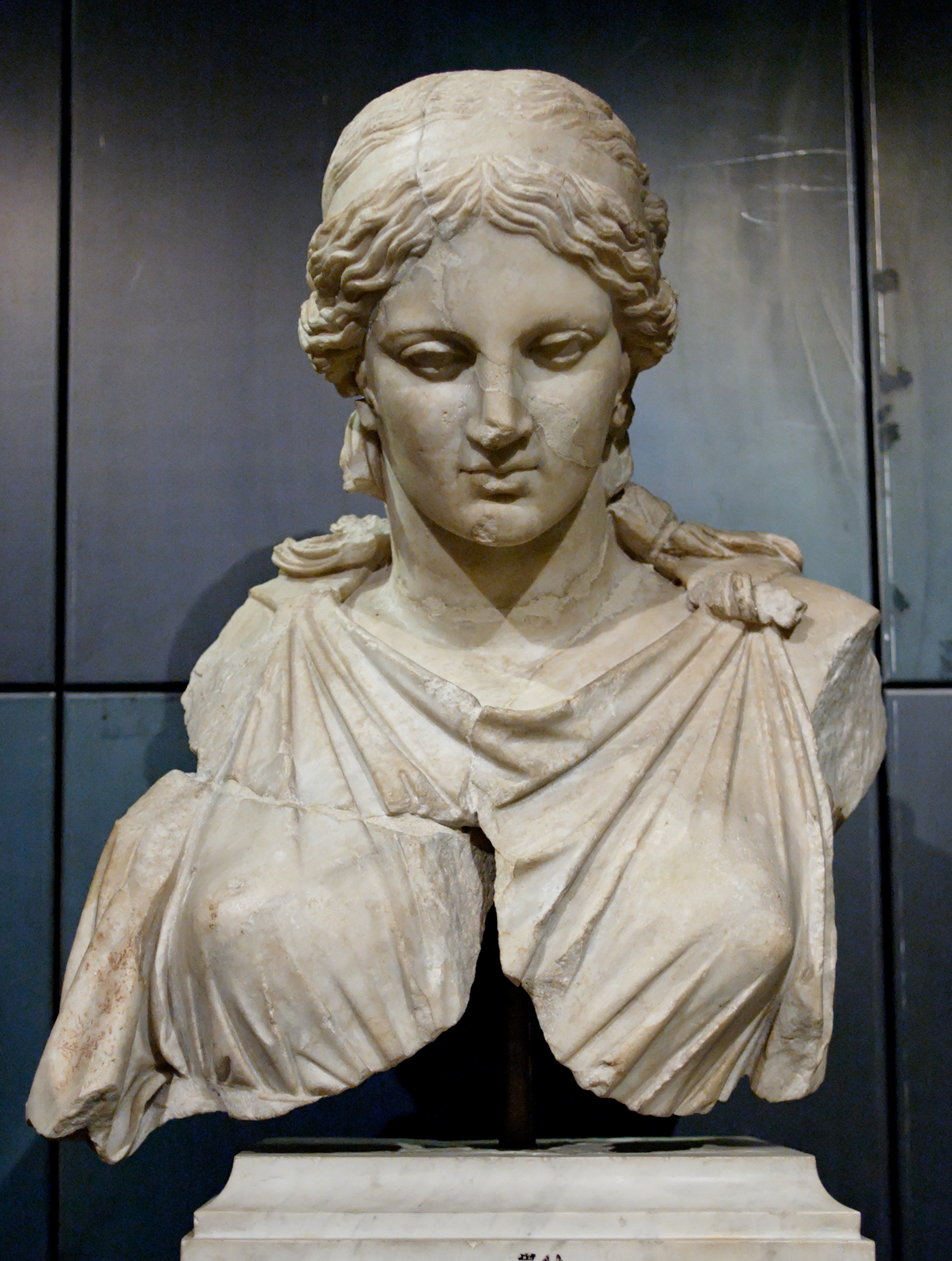 Female statue, probably a Roman copy of the statue of Artemis by Kephisodotos.